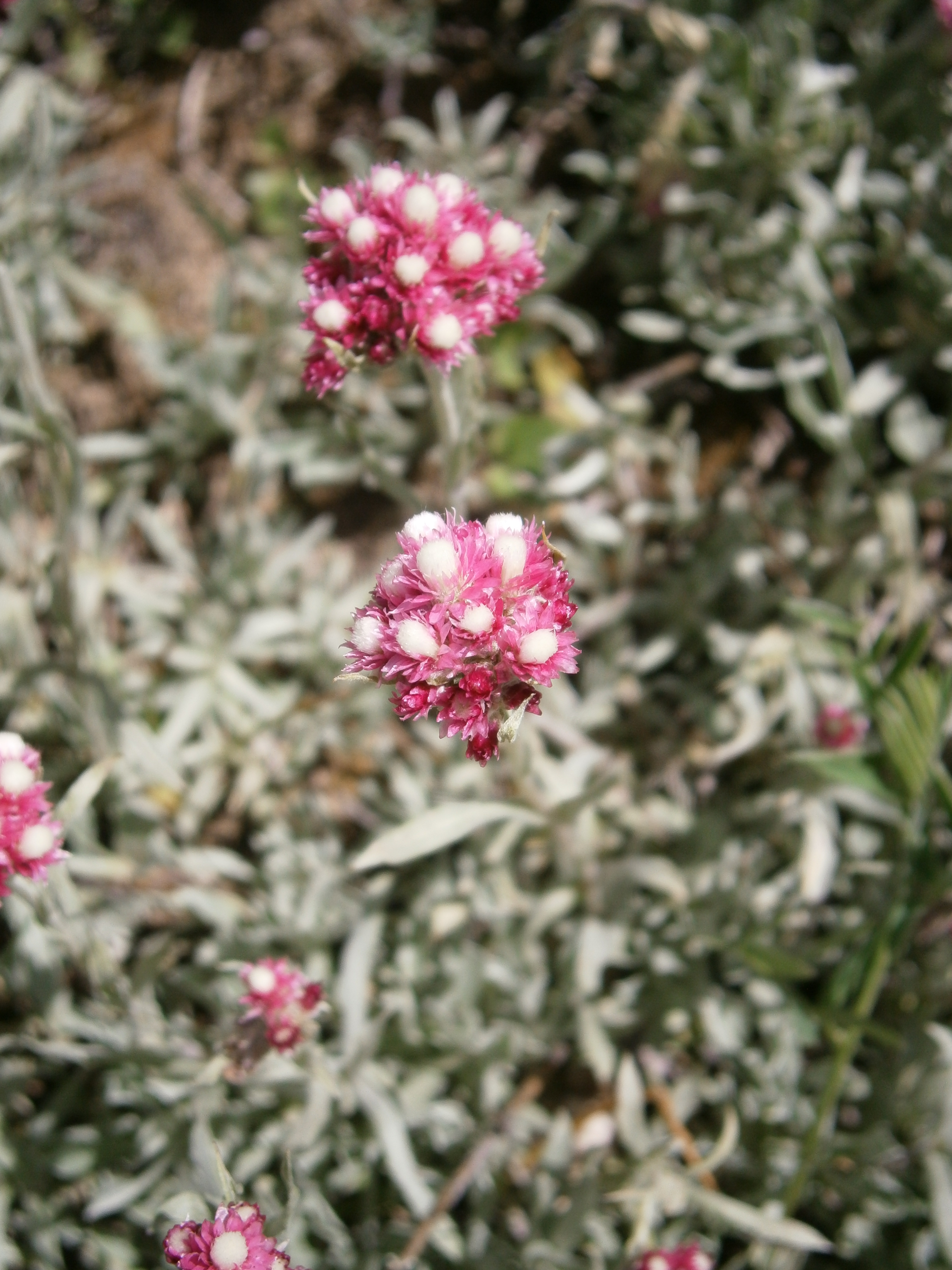 Antennaria rosea in the Jardin Botanique Alpin du Lautaret